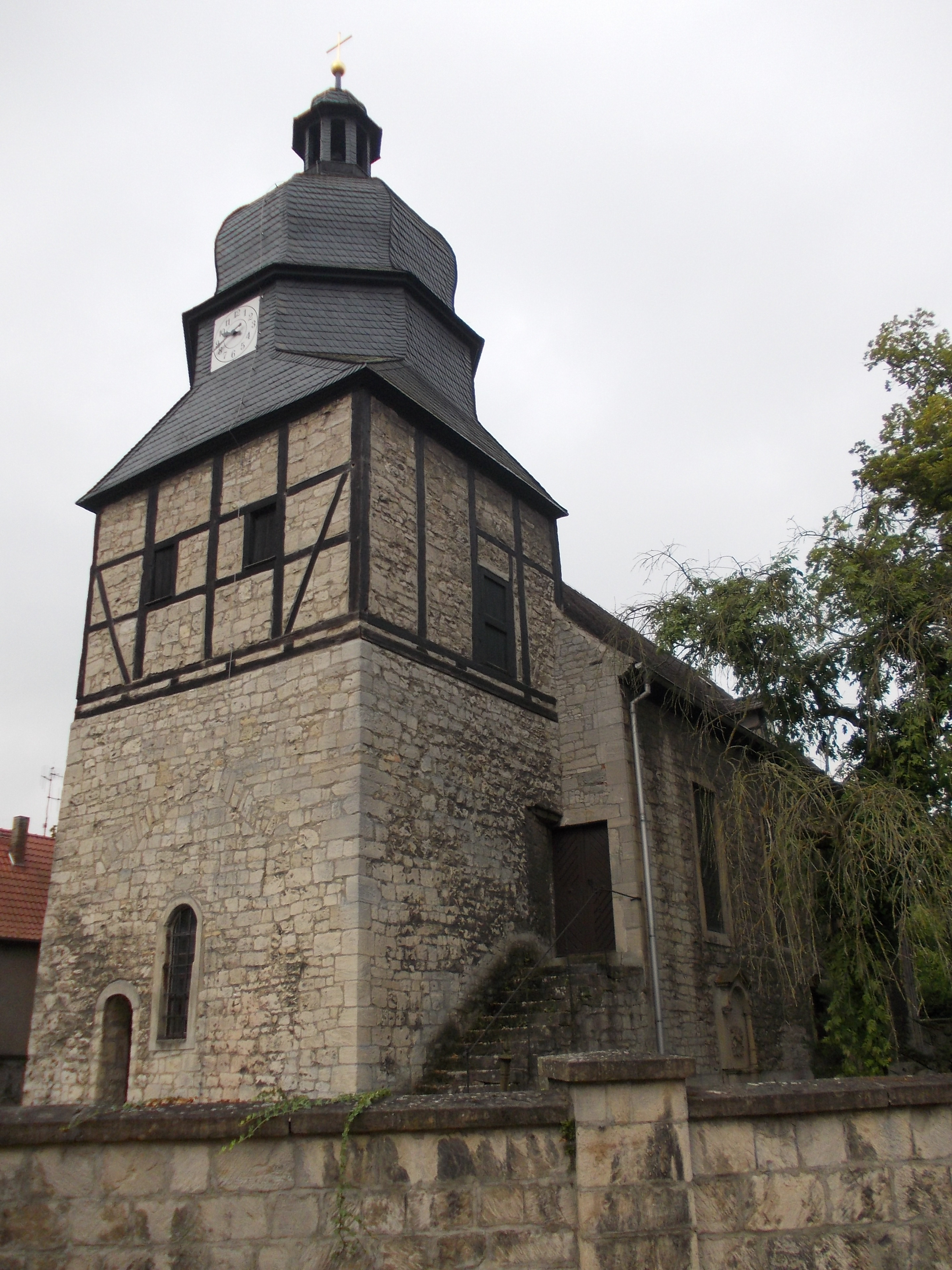 St. Lawrence Church in Saaleck (Naumburg,district: Burgenlandkreis, Saxony-Anhalt)